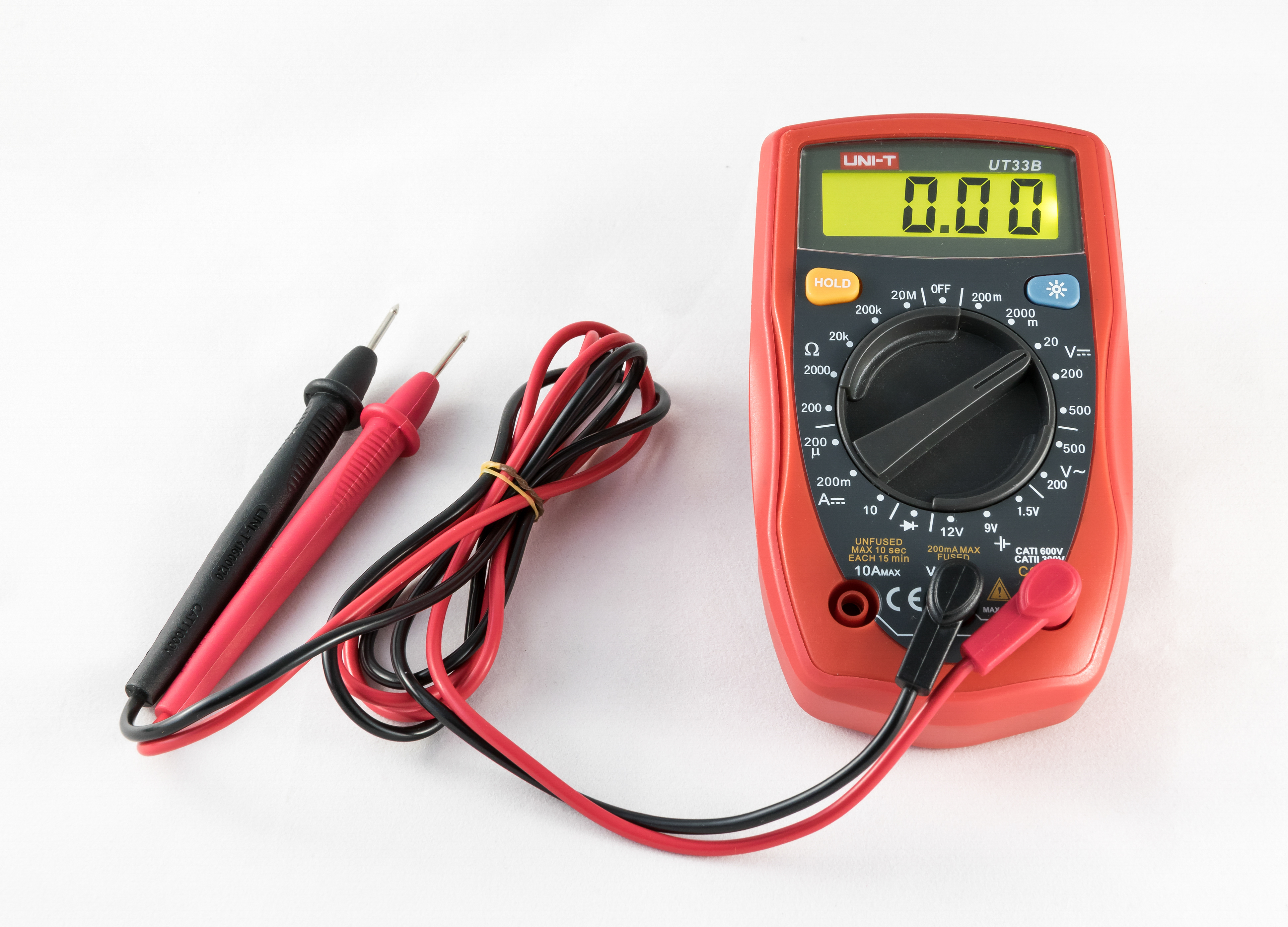 UNI-T UT33B digital multimeter